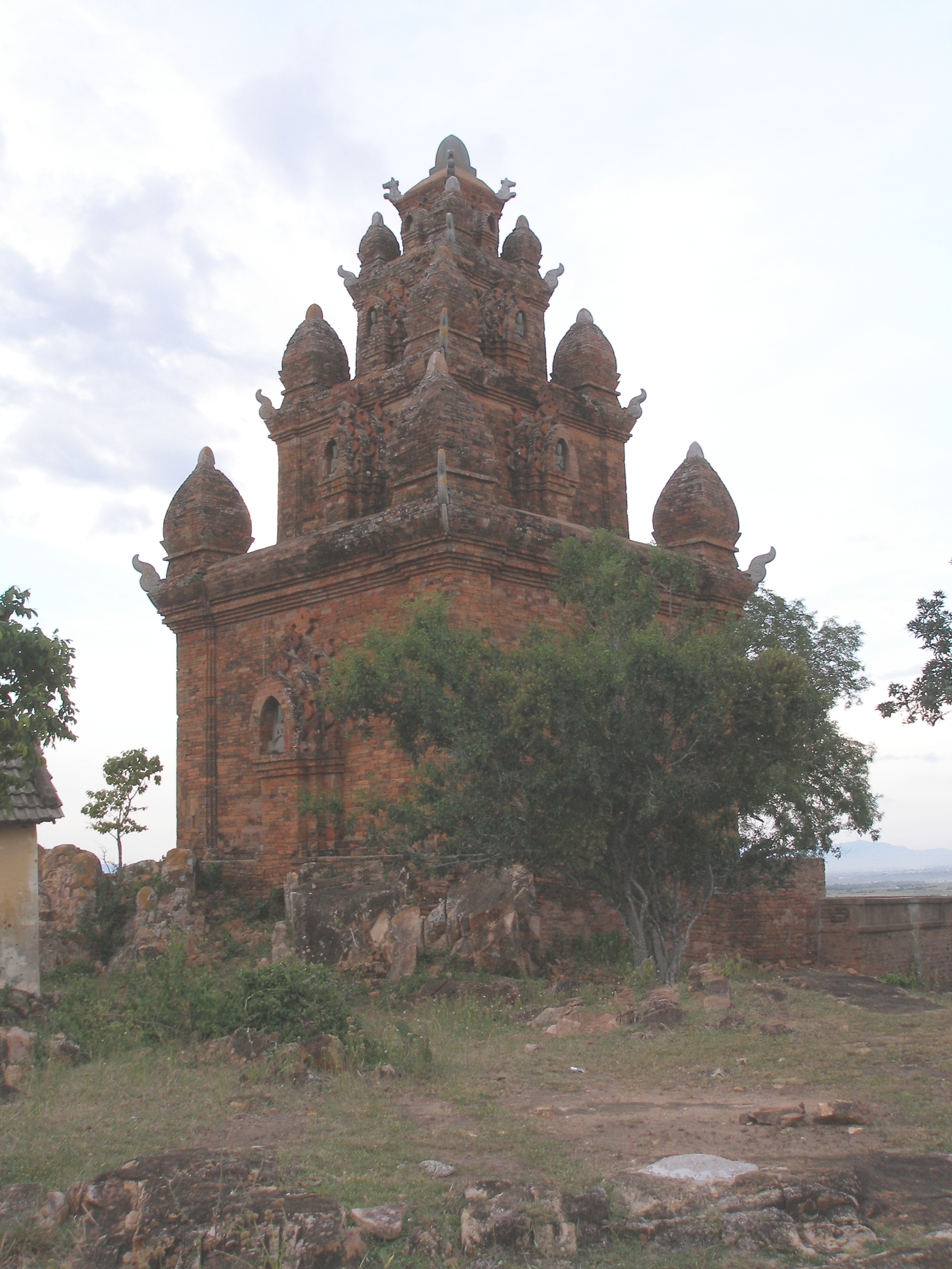 Po Rome - Cham temple near Phan Rang, Vietnam, rear view